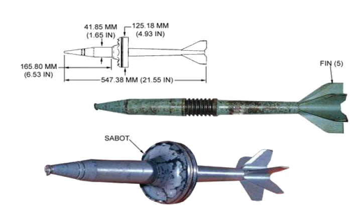 125mm BM15 APFSDS round.